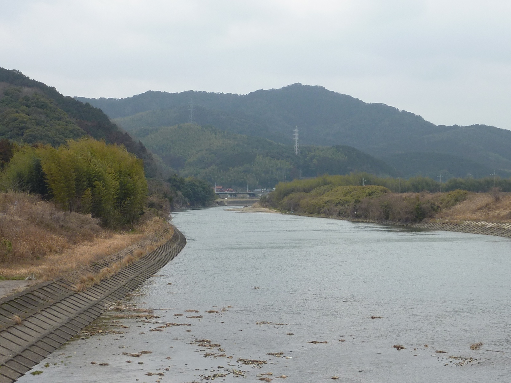 Koya Riber (Yoshida, Shimonoseki City, Yamaguchi, Japan)